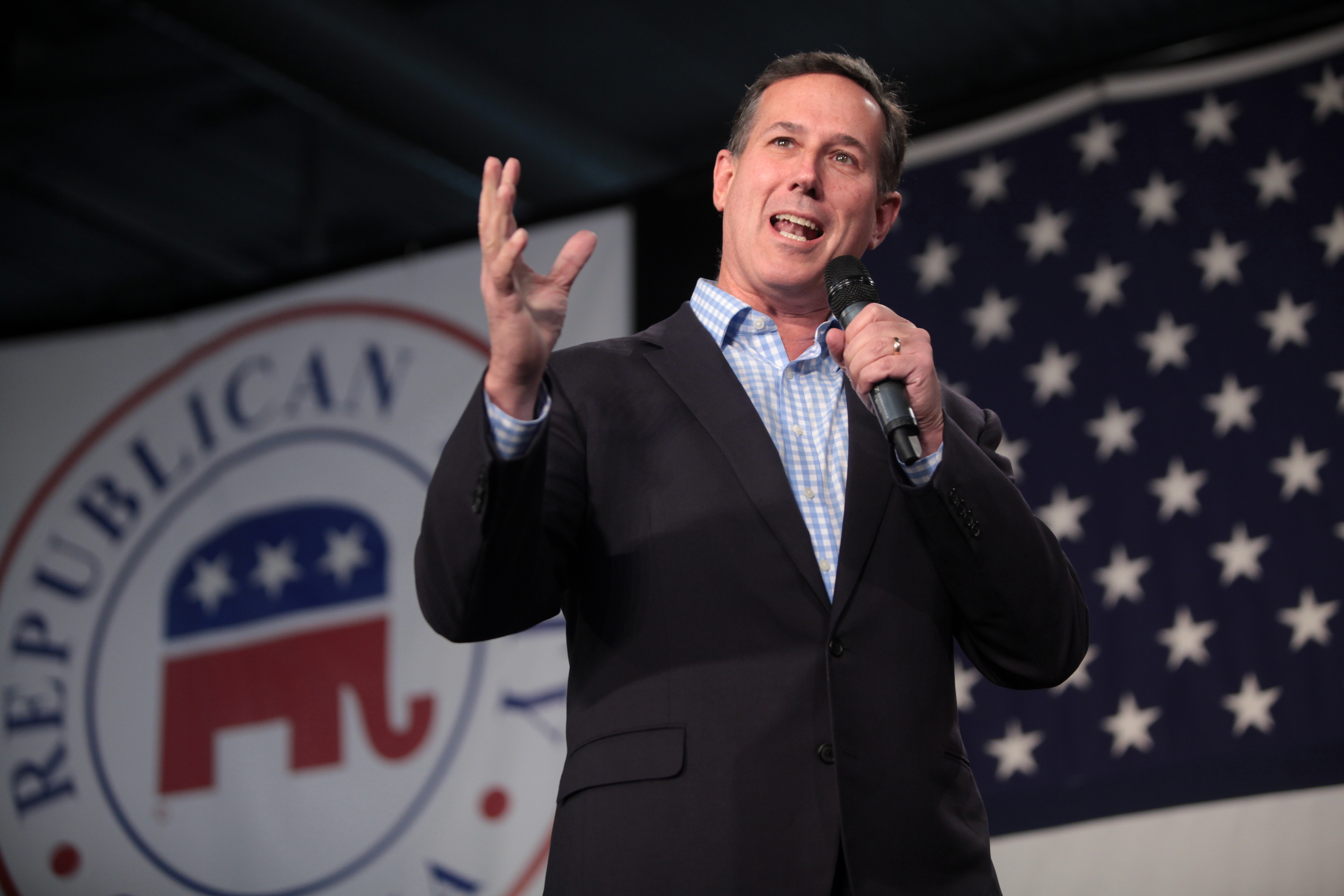 Rick Santorum speaking at the Iowa GOP's Growth and Opportunity Party in Des Moines, Iowa on October 31, 2015.